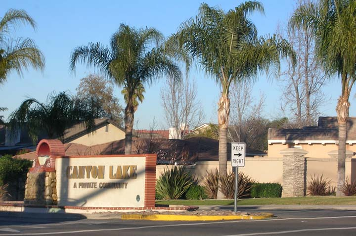 Image of the main enterance to Canyon Lake, California taken from a car in the left turn lane to enter the city from Railroad Canyon Road.